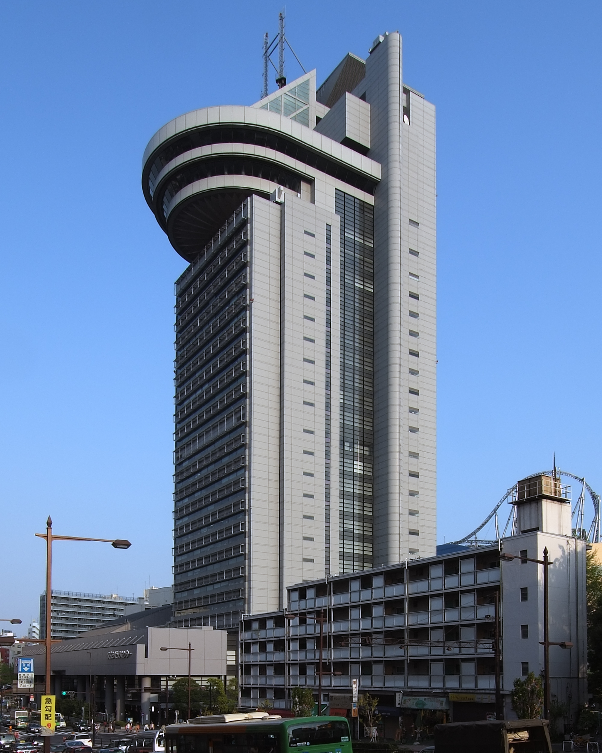 Bunkyo Civic Center, at Bunkyo-ku Tokyo Japan, design by Nikken Sekkei in 1994.